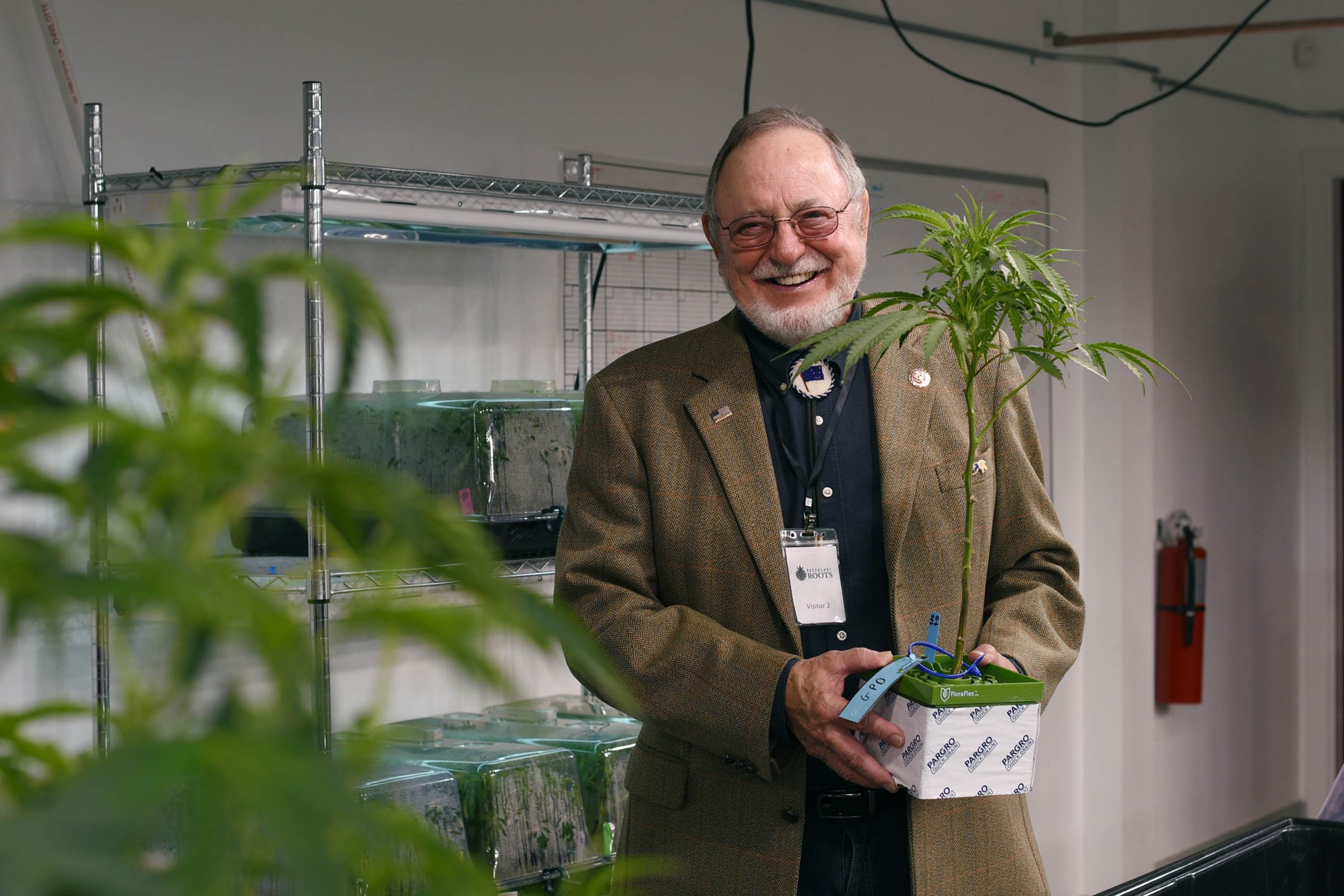 For too long, the federal government has stood in the way of states that have acted to set their own #cannabis policies. I’ve visited my state’s legal cannabis operations, and the fact is that these businesses contribute to our economy and create jobs for Alaskans.